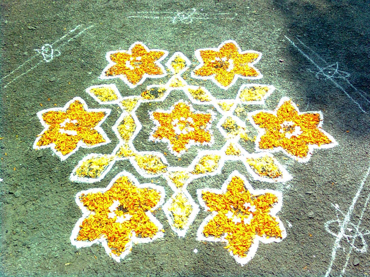 Sankranti Muggu with flowers at Nizampet, Rangareddy district